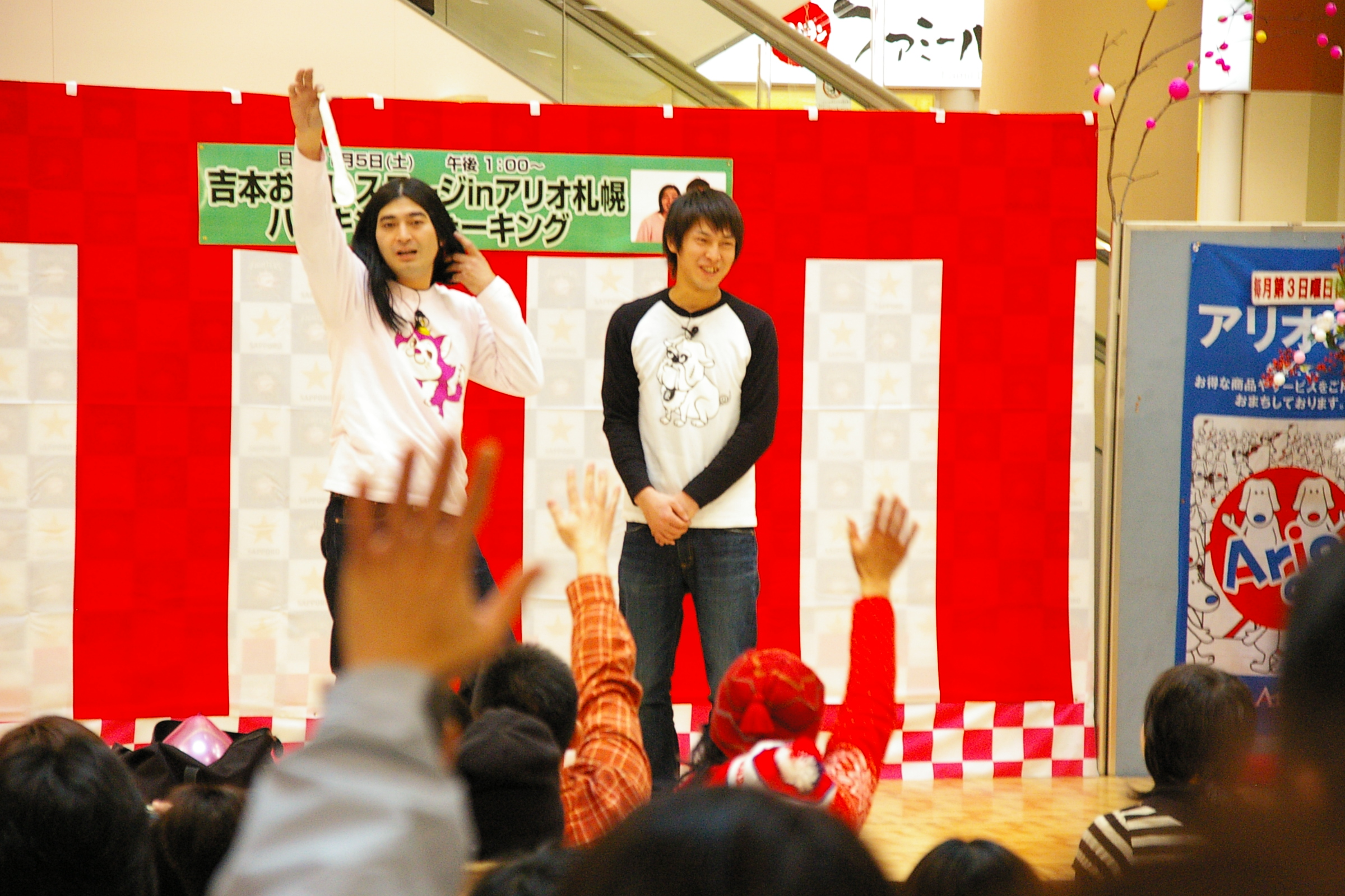 The comedy duo Hiking Walking